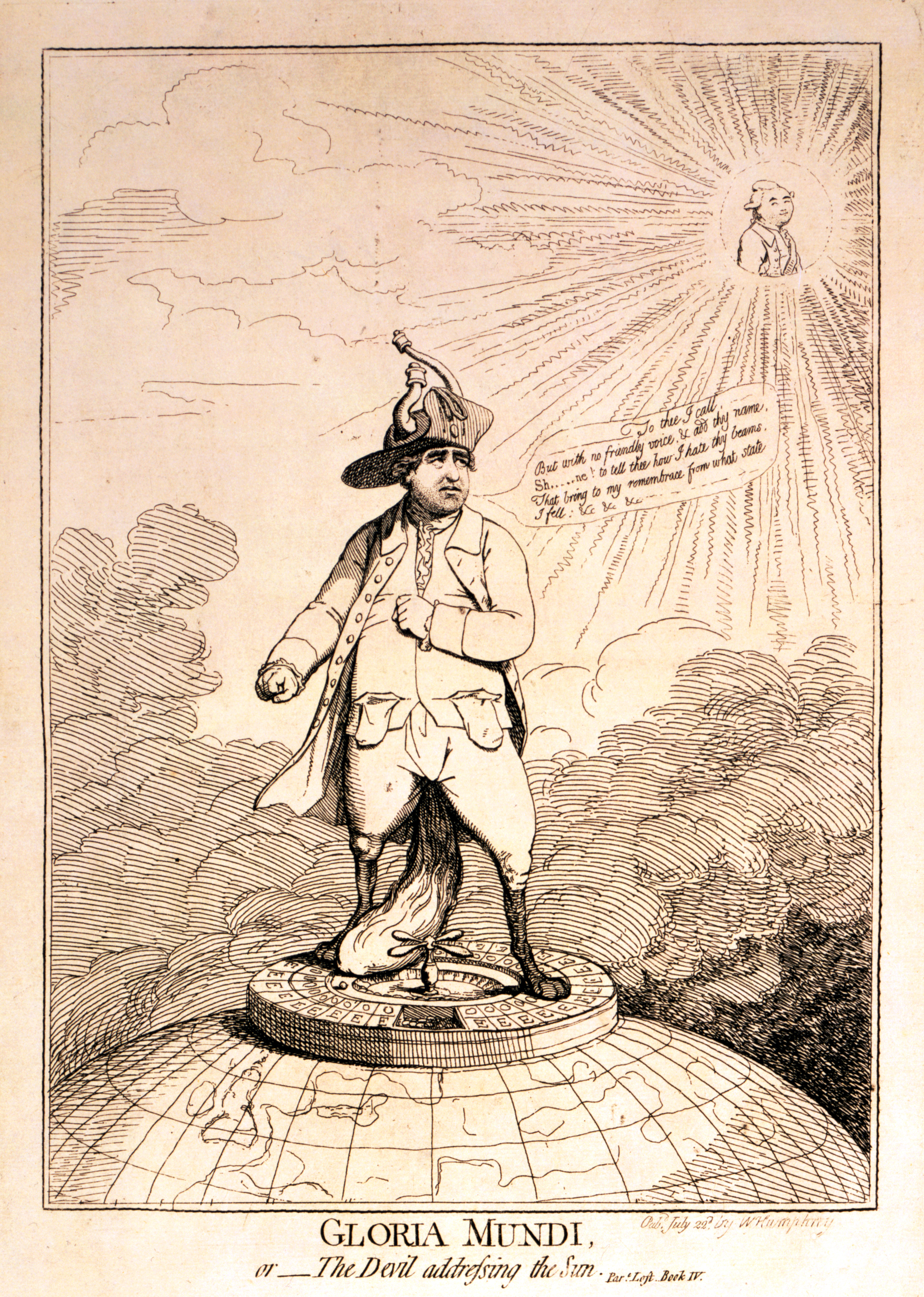 Title: Gloria Mundi, or The Devil addressing the sun - Pare. Lost, Book IV Abstract: Cartoon showing Charles James Fox standing on a roulette wheel perched atop a globe showing England and continental Europe, the implication is that his penniless state, indicated by turned-out pockets, is due to gambling; he looks over his left shoulder up at a bust of Shelburne who, like the sun, is beaming radiantly. Like Edmund Burke, Fox resigned his position as foreign secretary in protest at the appointment of Shelburne following Rockingham's death. Physical description: 1 print : etching. Notes: Exhibited: Gillray and the Art of Caricature.; Forms part of: British Cartoon Prints Collection (Library of Congress).